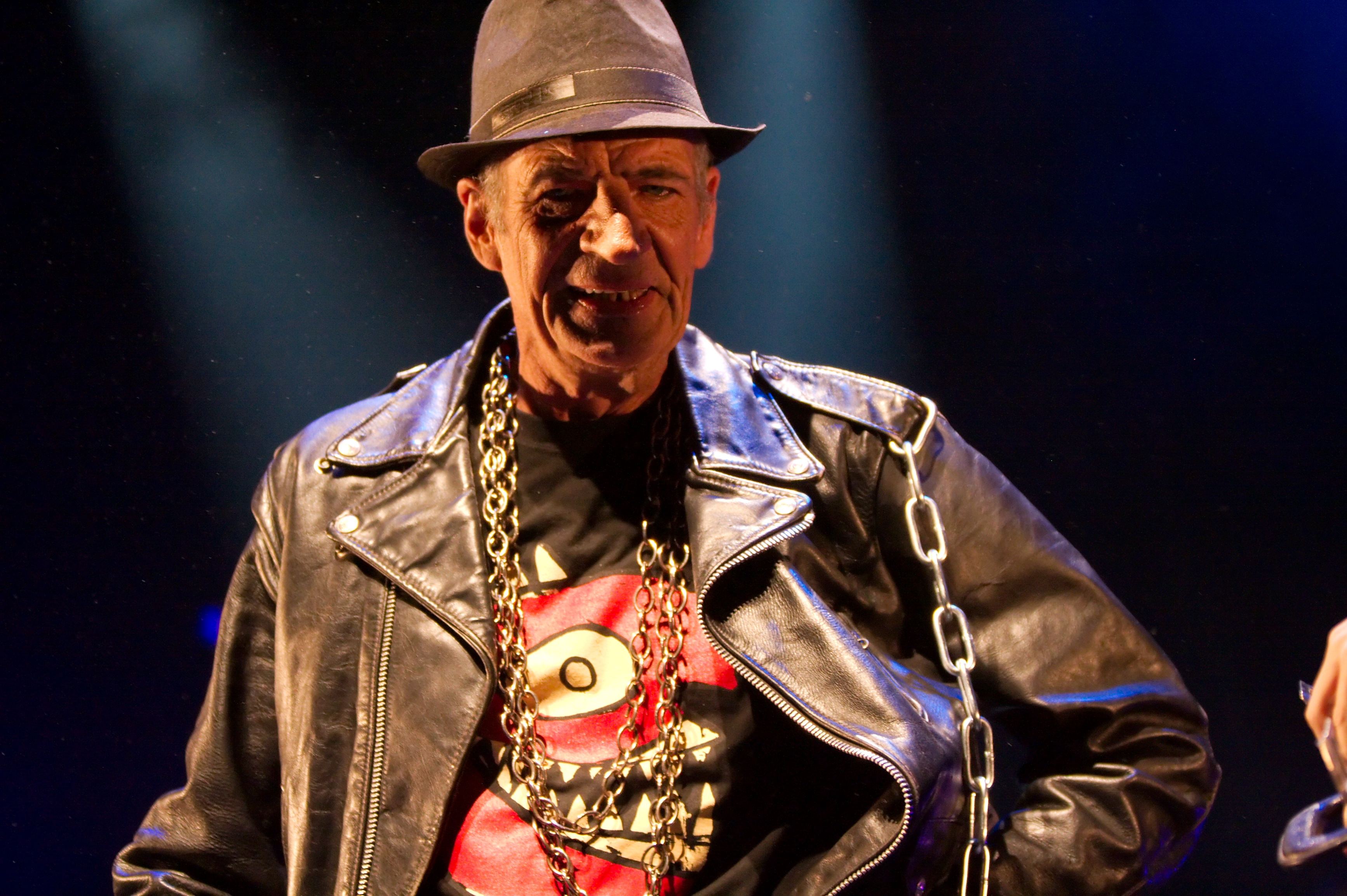 Raoul Petite live at Simiane-Collongue (France) for the French song festival 2009.